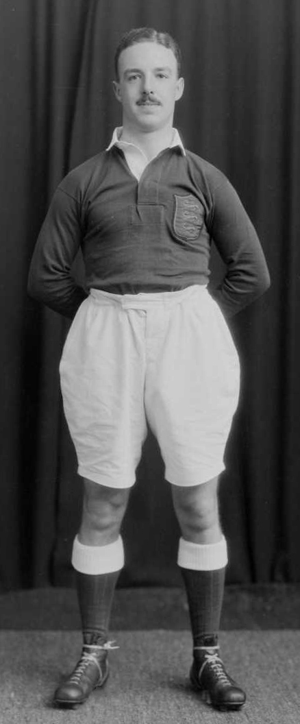 G M Bonner, member of the British Lions rugby union team